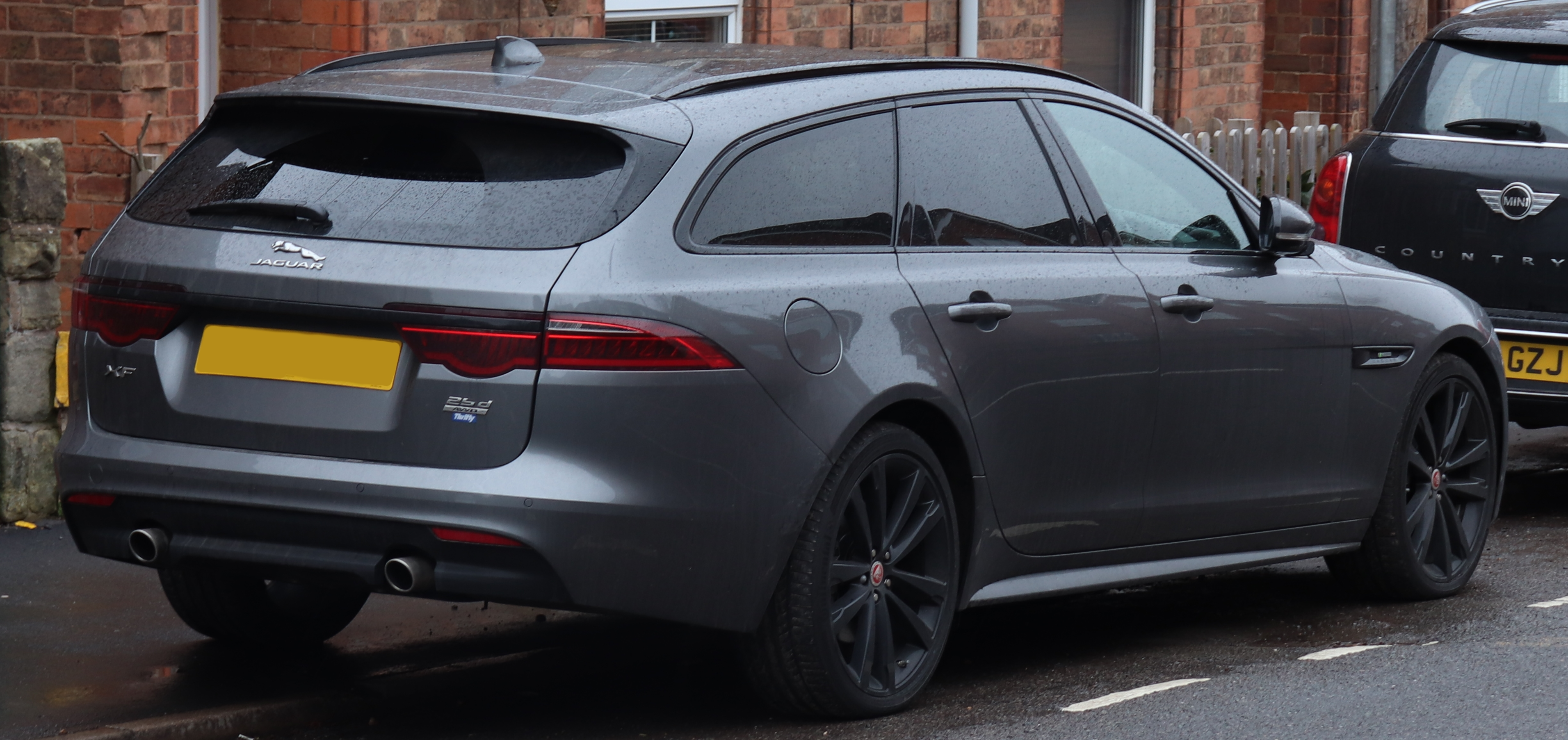 2017 Jaguar XF-R-Sport Diesel AWD Automatic 2.0 Rear Taken in Warwick